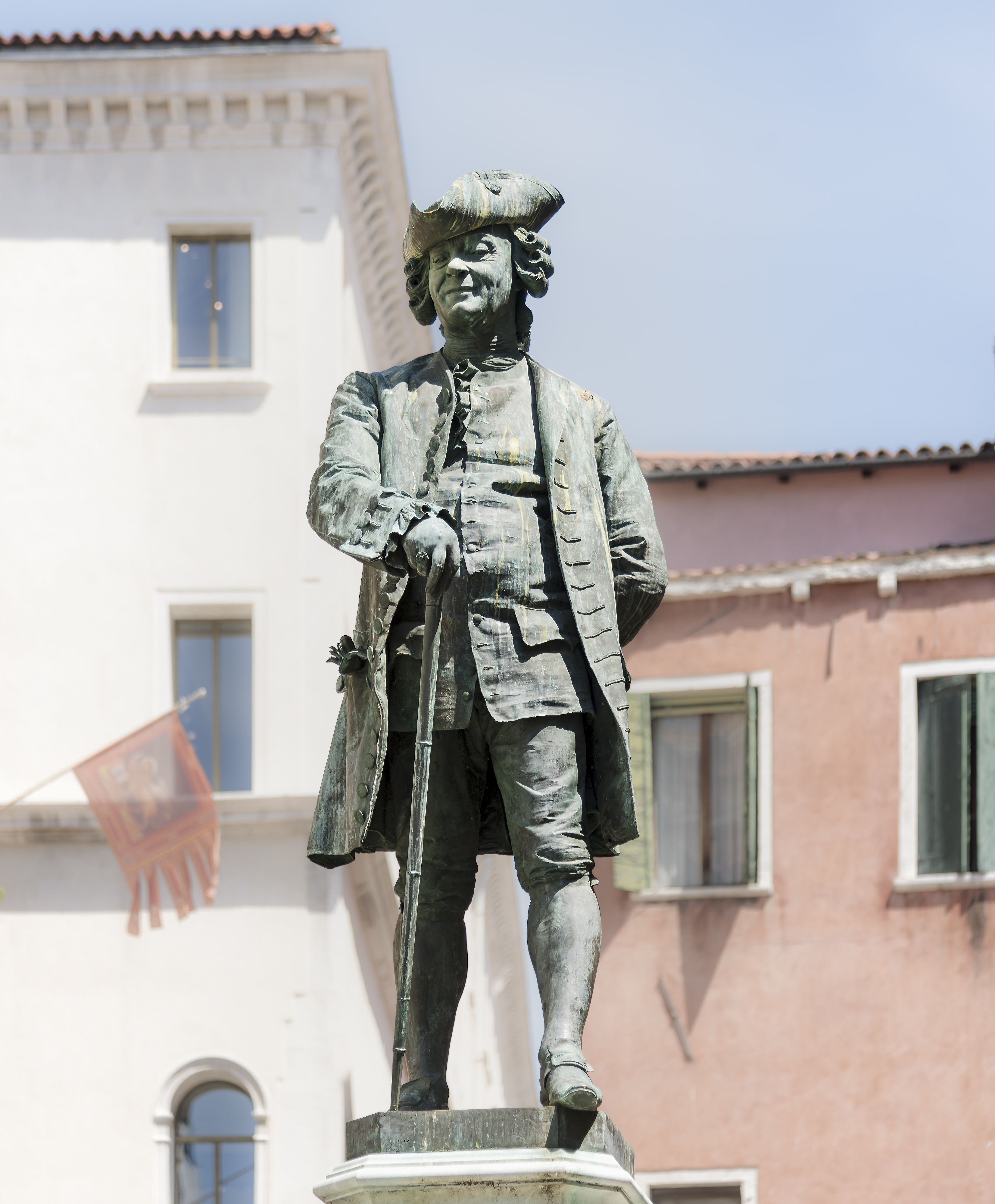 Monument to Carlo Goldoni, Campo san Bartolomeo Venice by Antonio Dal Zotto (1883).